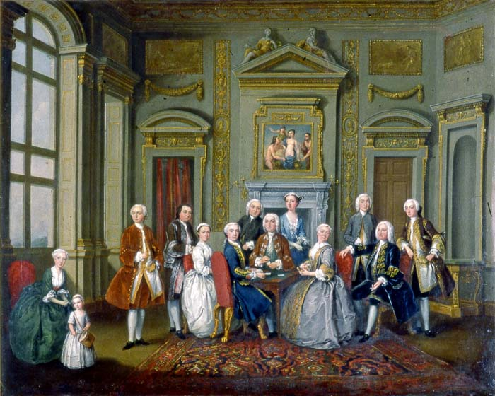 Depicts Richard Child, 1st Earl Tylney, seated at right.